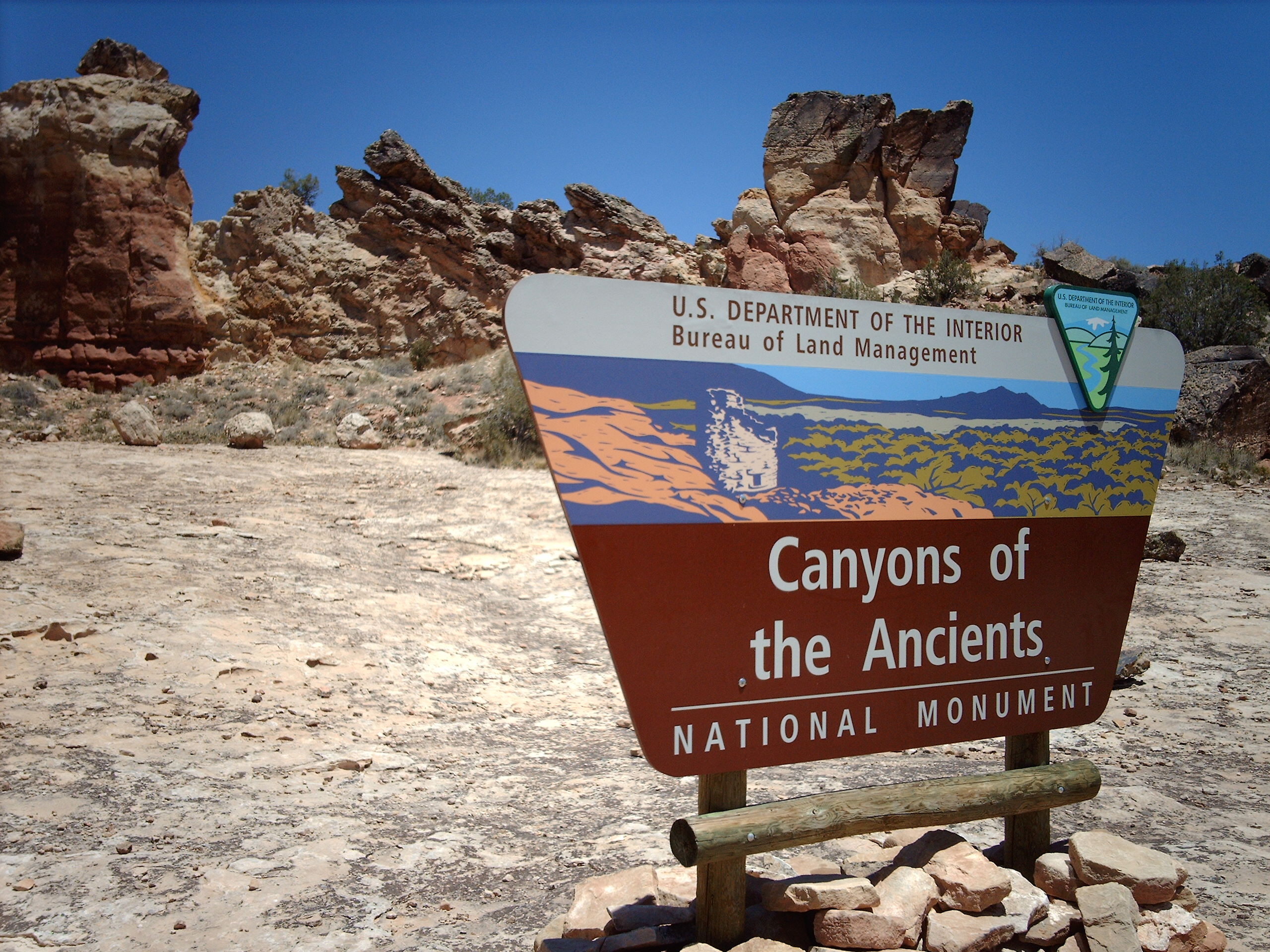 Canyon of the Ancients National Monument. Taken just off Montezuma County Route G.